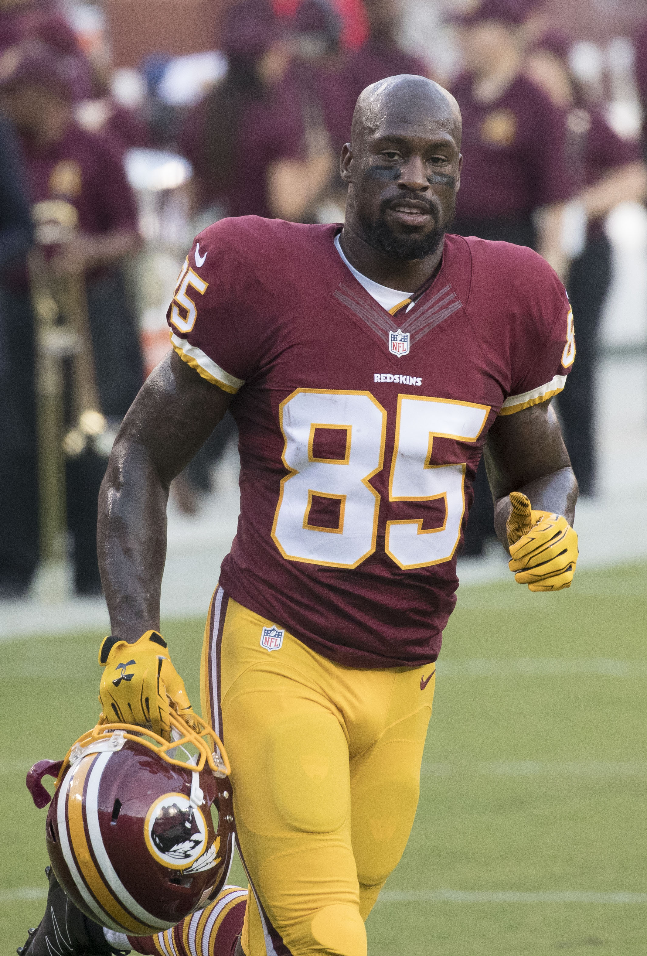 Jets at Redskins 8/19/16